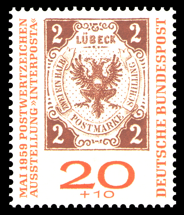 Interposta, international exhibition of stamps 1959 Graphics by Schraml Ausgabepreis: 20+10 Pfennig First Day of Issue / Erstausgabetag: 22. August 1959 Michel-Katalog-Nr: 311 b